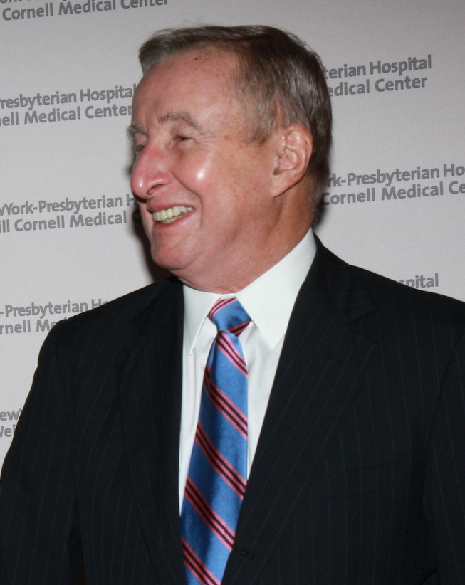 Dr. Antonio M. Gotto at NewYork-Presbyterian Hospital/Weill Cornell Medical Center's Cabaret 2009 Benefit October 21, 2009. Photo Credit: Cutty McGill